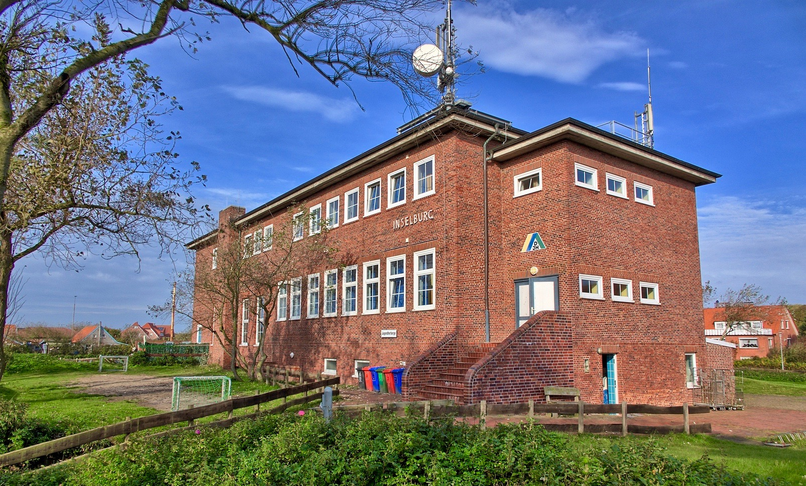 South-easterly view: Former theatre hall of progressive Schule am Meer (= School by the Sea) on Juist Island, North Sea, Germany. Built in 1930/31 by renowned Berlin-based architect Bruno Ahrends (1878–1948) the building is now part of the island's youth hostel. Despite its unique status in German architecture and pedagogics its core was removed in the early 1950s to serve as a protestant children's home named 'Inselburg' (= Island Castle). Instead of its large theatre hall with a gallery it became an additional floor, much more rooms and windows. Its formerly distinctive long vertical strip of ribbon windows was wailed. The bordering of the stairs in front of the entrances on its Southern and Western side still represents the time of creation's style.